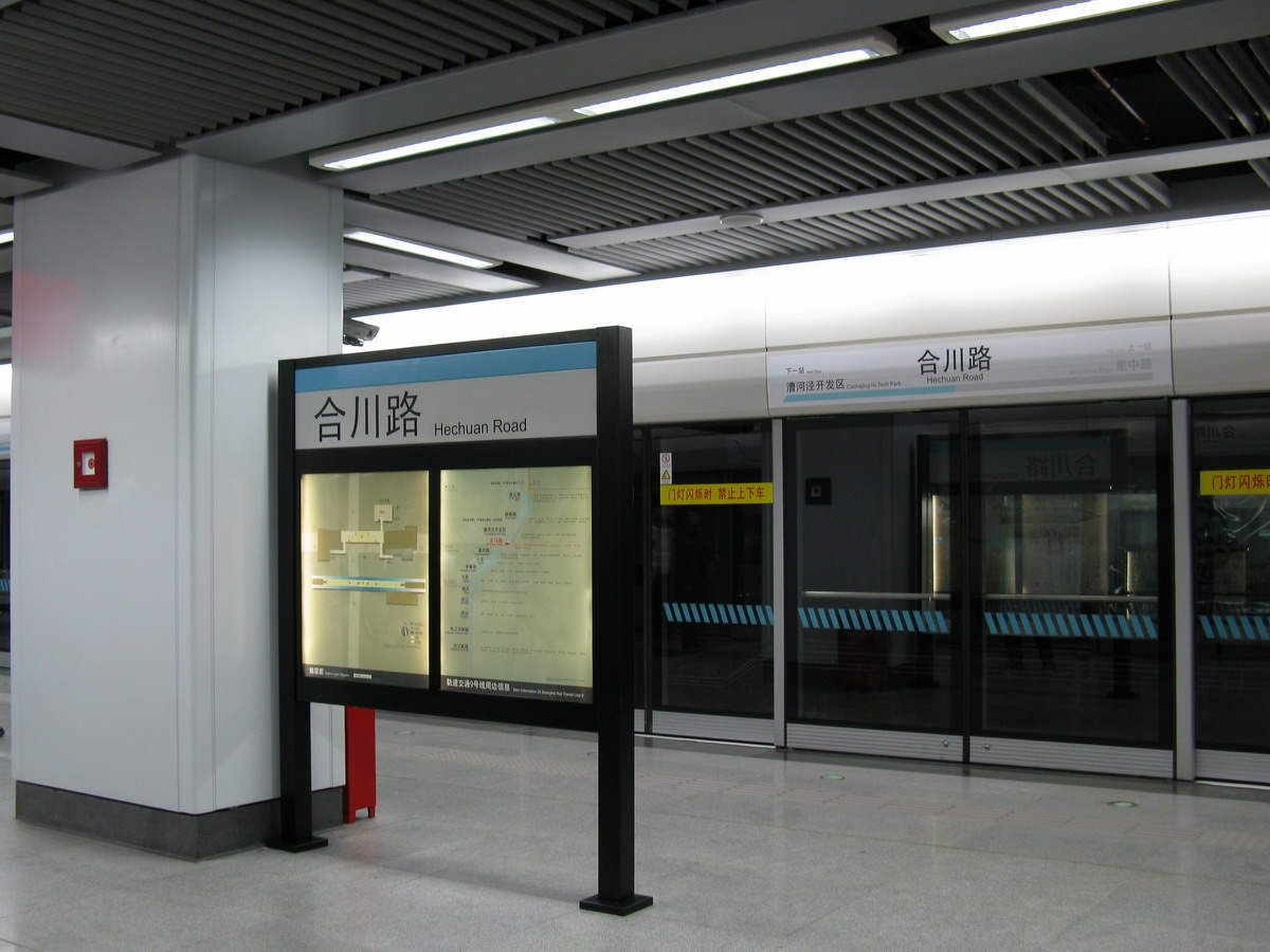 Line 9 Platform of Hechuan Road Station